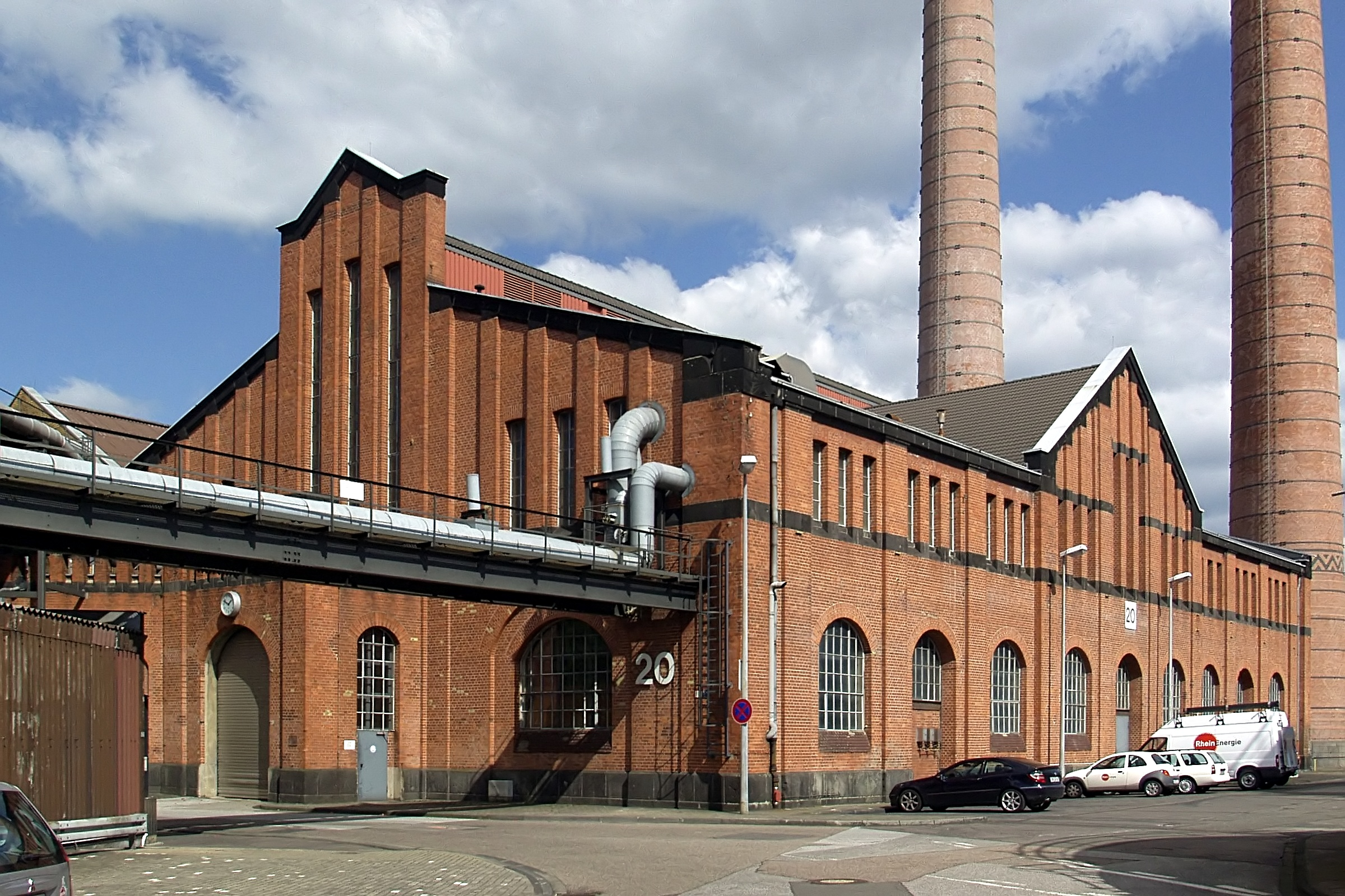 Gas and steam cogeneration plant "Südstadt", boiler house. RheinEnergie, Colgne, Germany